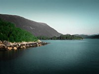 Norway